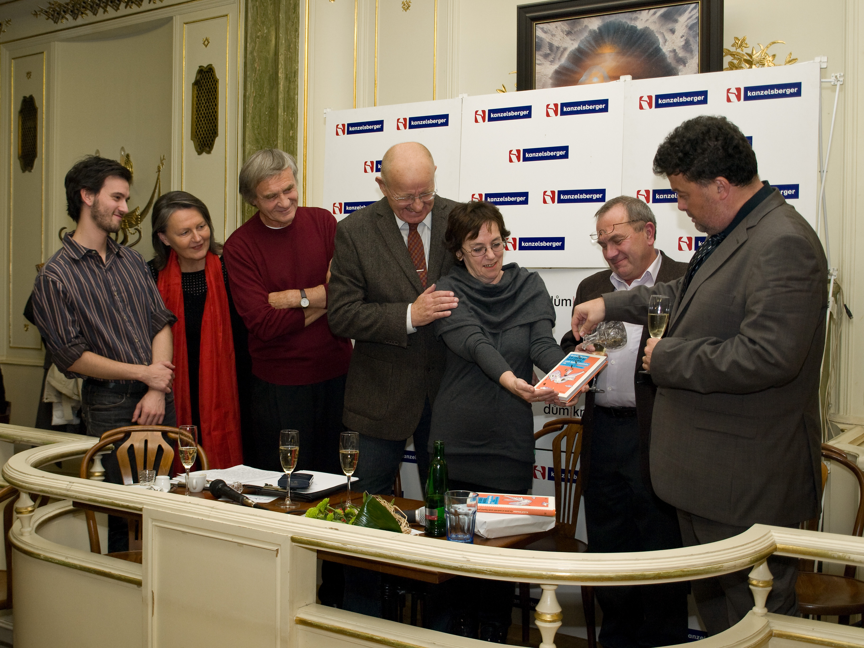 Introduction of a book by Czech journalist-feuilletonist Rudolf Křesťan (in centre) and his wife illustrator Magdalena Křesťanová in Prague